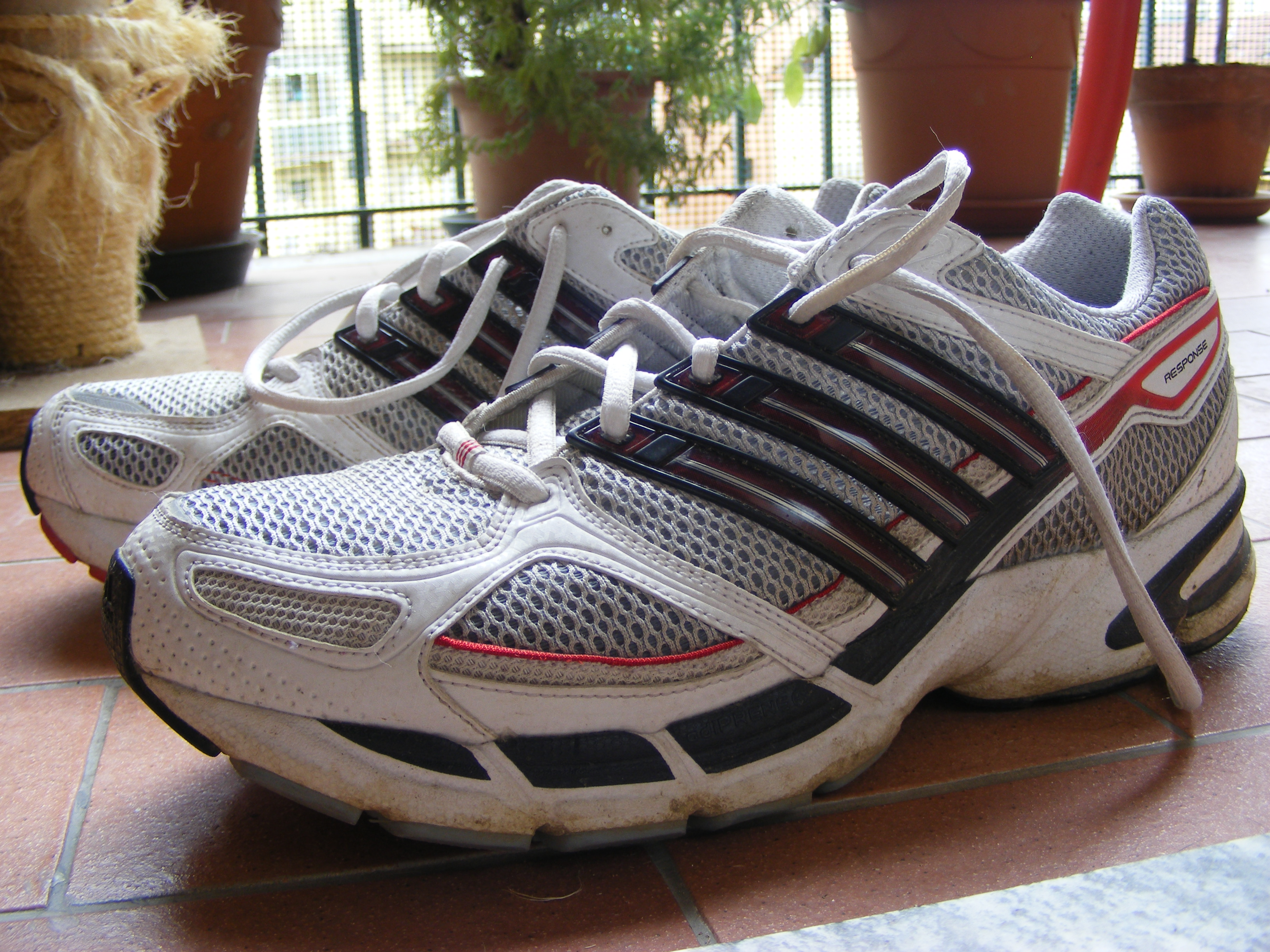 Adidas Response Cushion 18